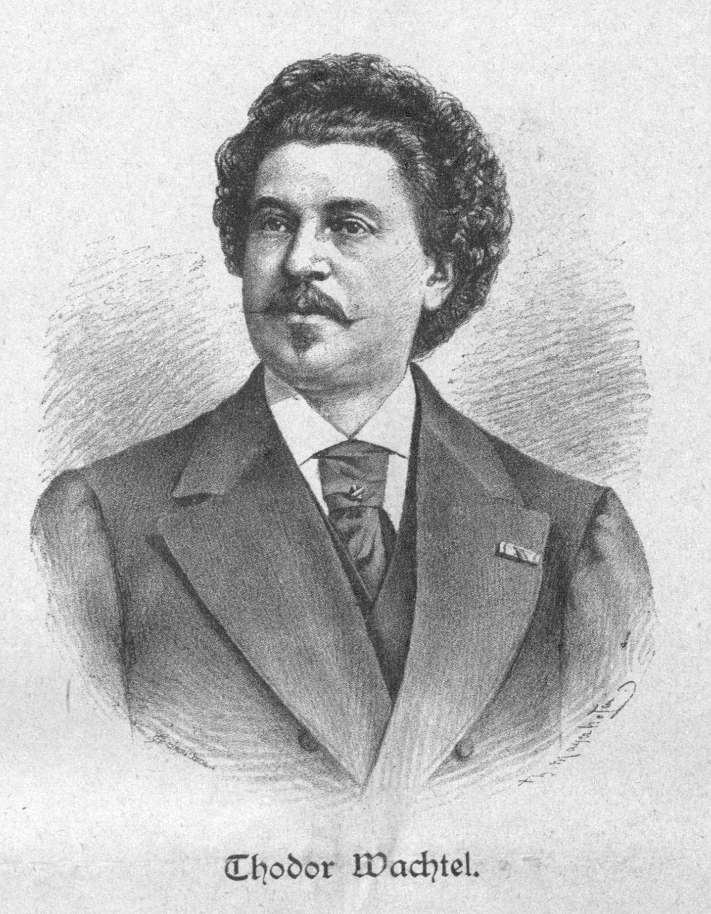 Portrait of Theodor Wachtel (1823-1893), German opera singer.